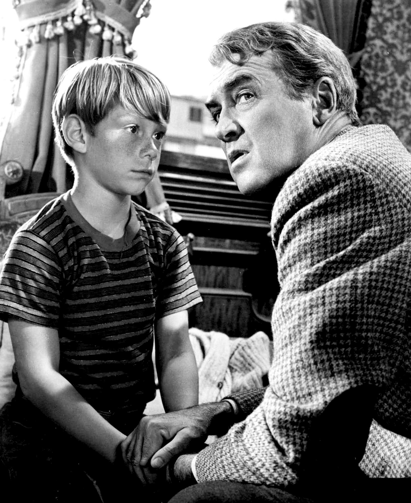 Photo of Billy Mumy and James Stewart from the 1965 film Dear Brigitte.